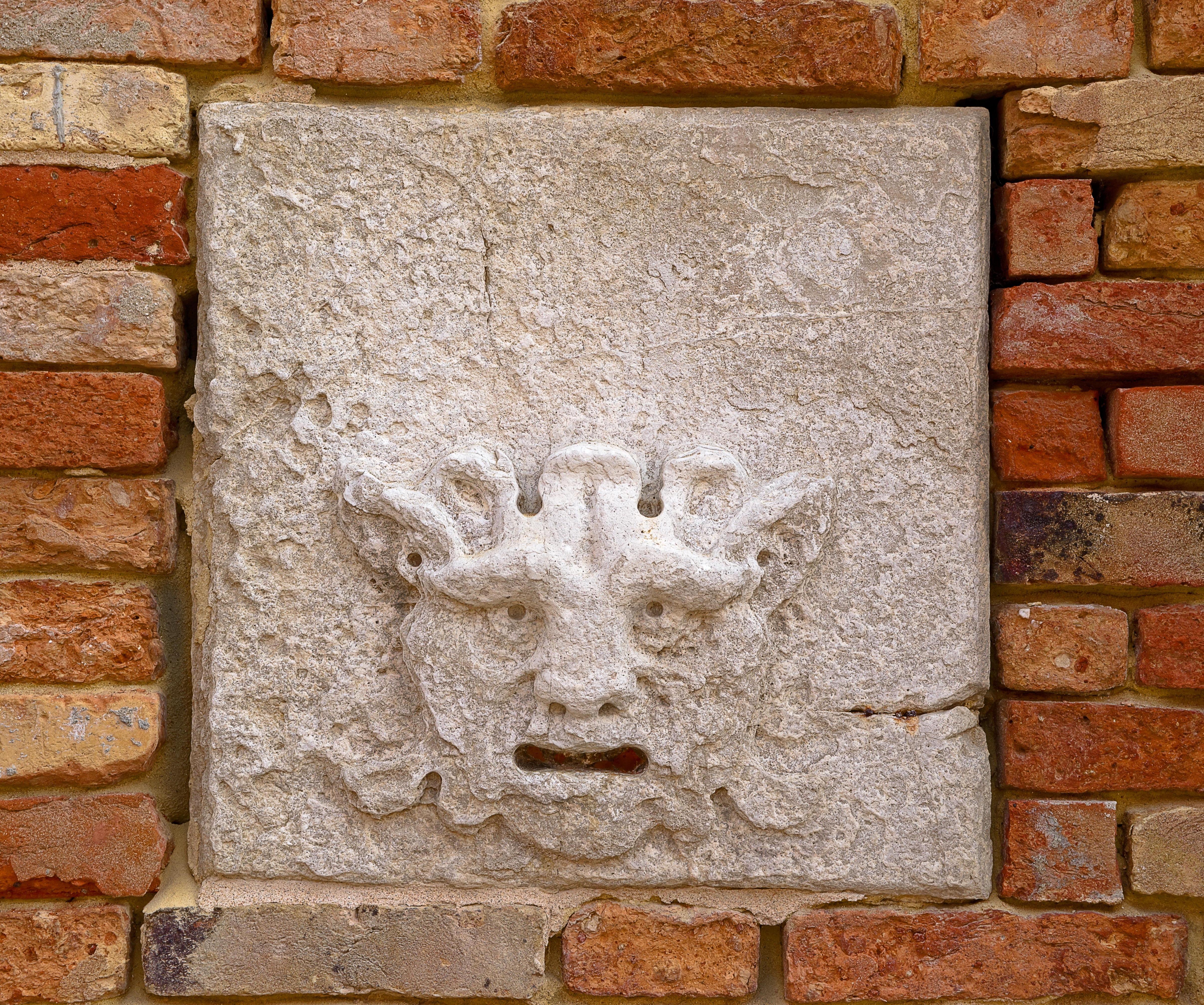 Church of San Martino Venice. A "Lion's Mouth" postbox for secret denunciations.